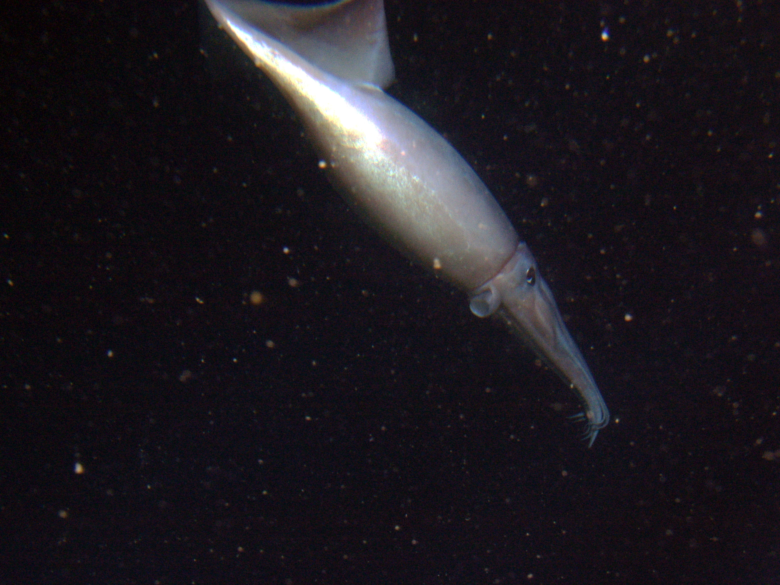 Humboldt squid (Dosidicus gigas) close up at 250 meters. Latitude 38 04 N., Longitude 123 -31 W. California, Cordell Bank National Marine Sanctuary. 2005.